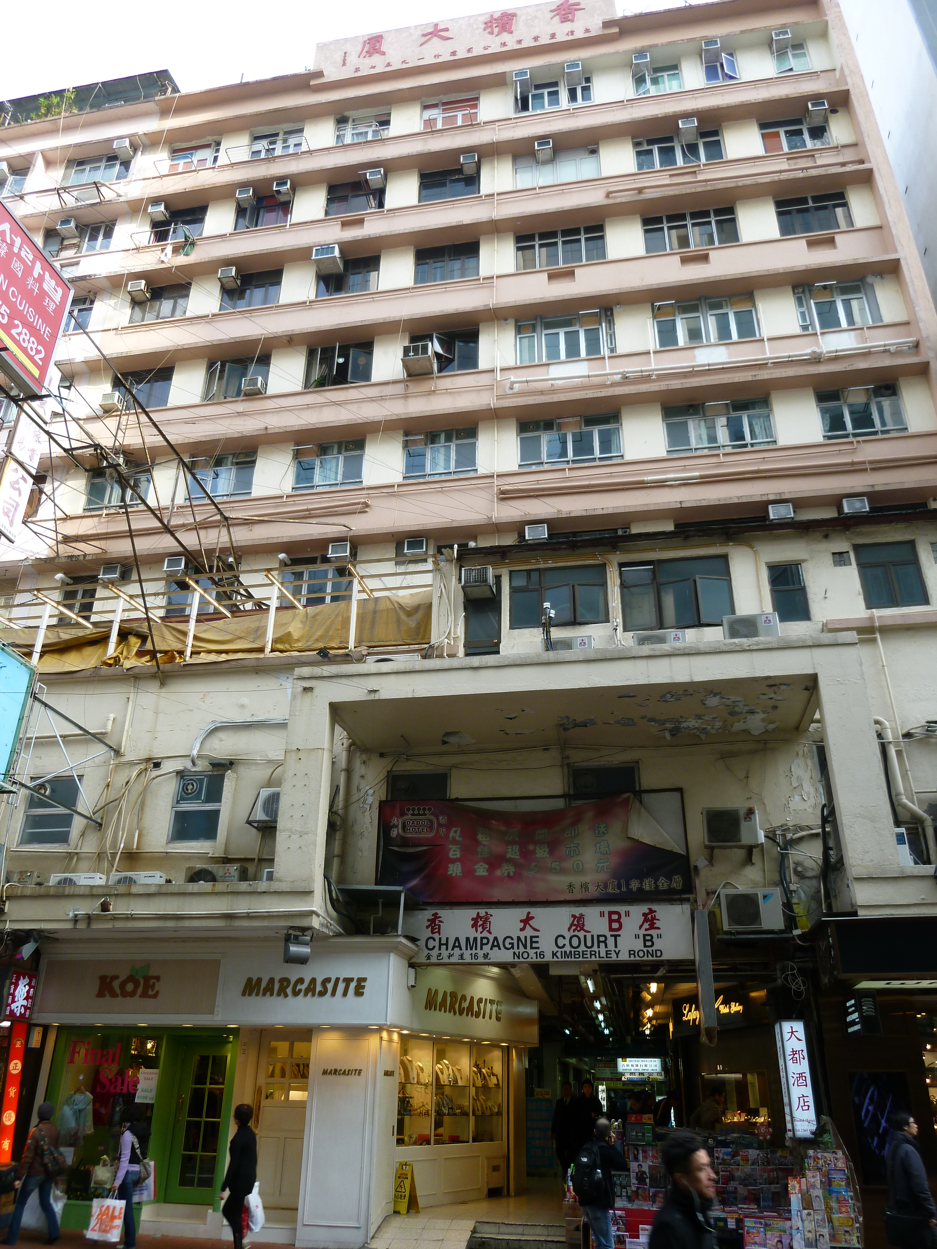 Champagne Court (16-20 Kimberley Road, Tsim Sha Tsui, Kowloon, Hong Kong)